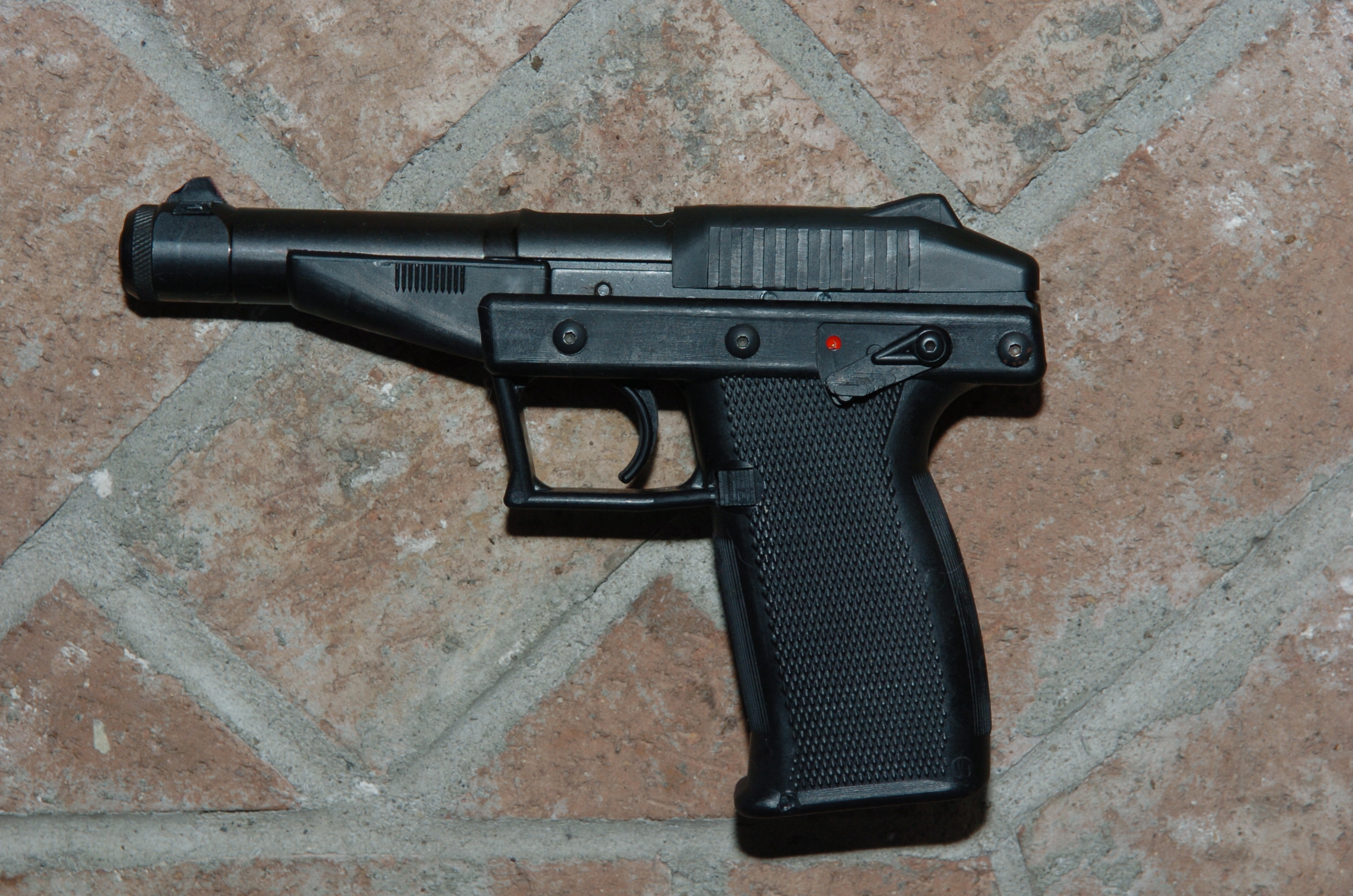 Photo of left side of Grendel P30 pistol